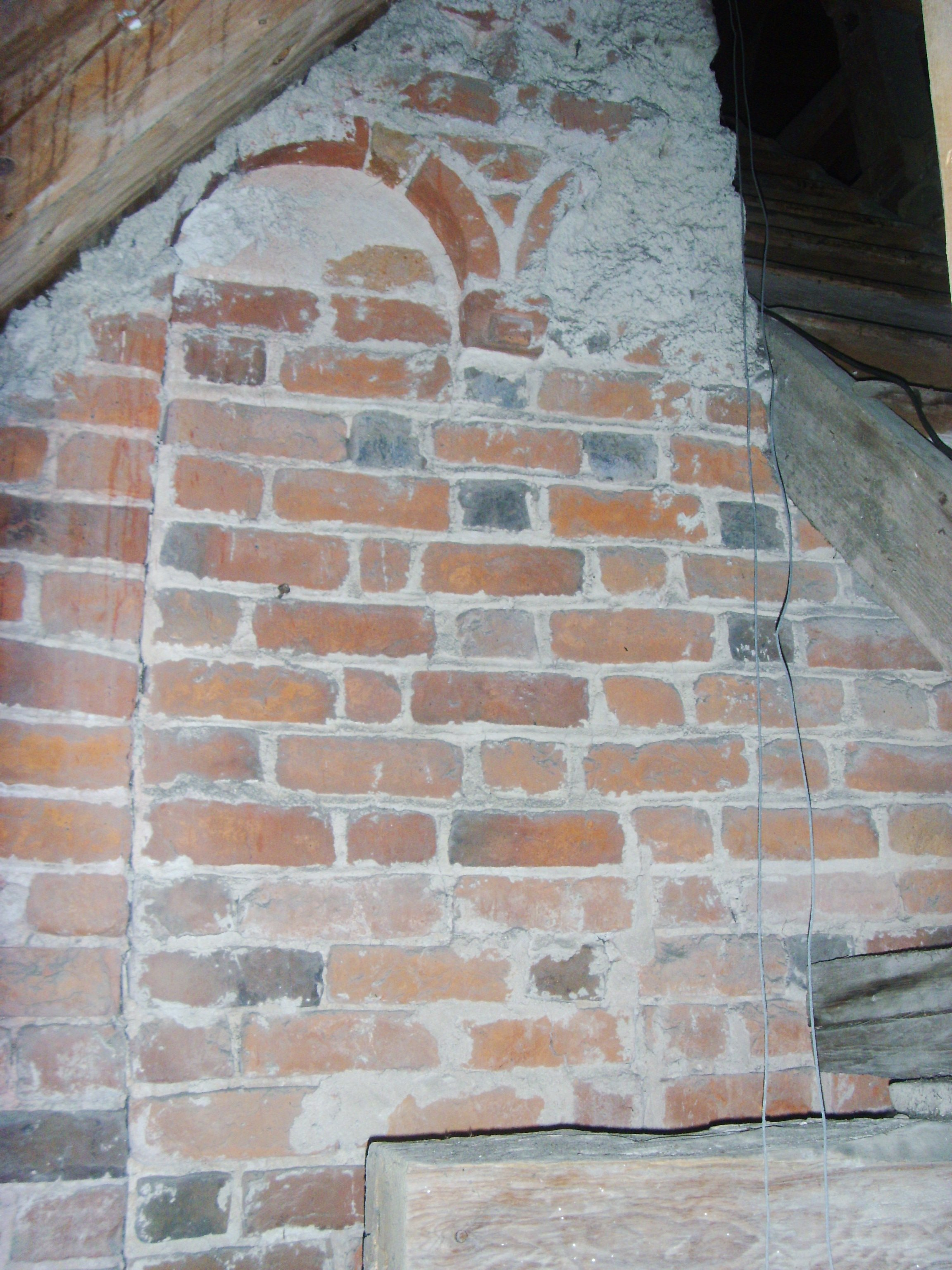 When the Orden of St Dominic came to Sweden 1237 they built a convention (monestery) in Skänninge and in the same time the first brickhouses in Sweden started to builts. The church in Järstad was probably the first church on the countryside with bricks, from around 1250. The summer 2008 they restored the church.